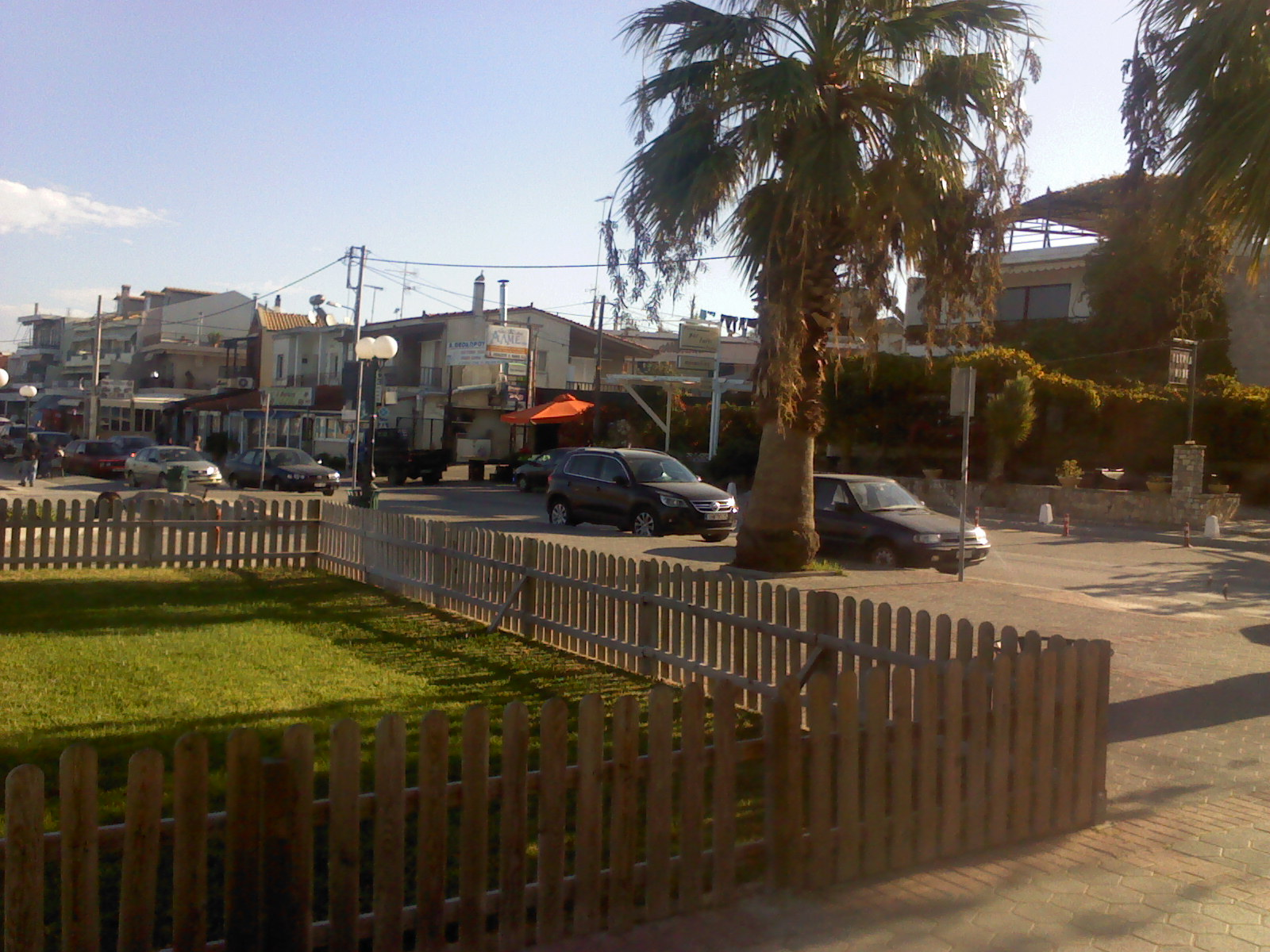 Rue Seaside Agioi Apostoloi Kalamos